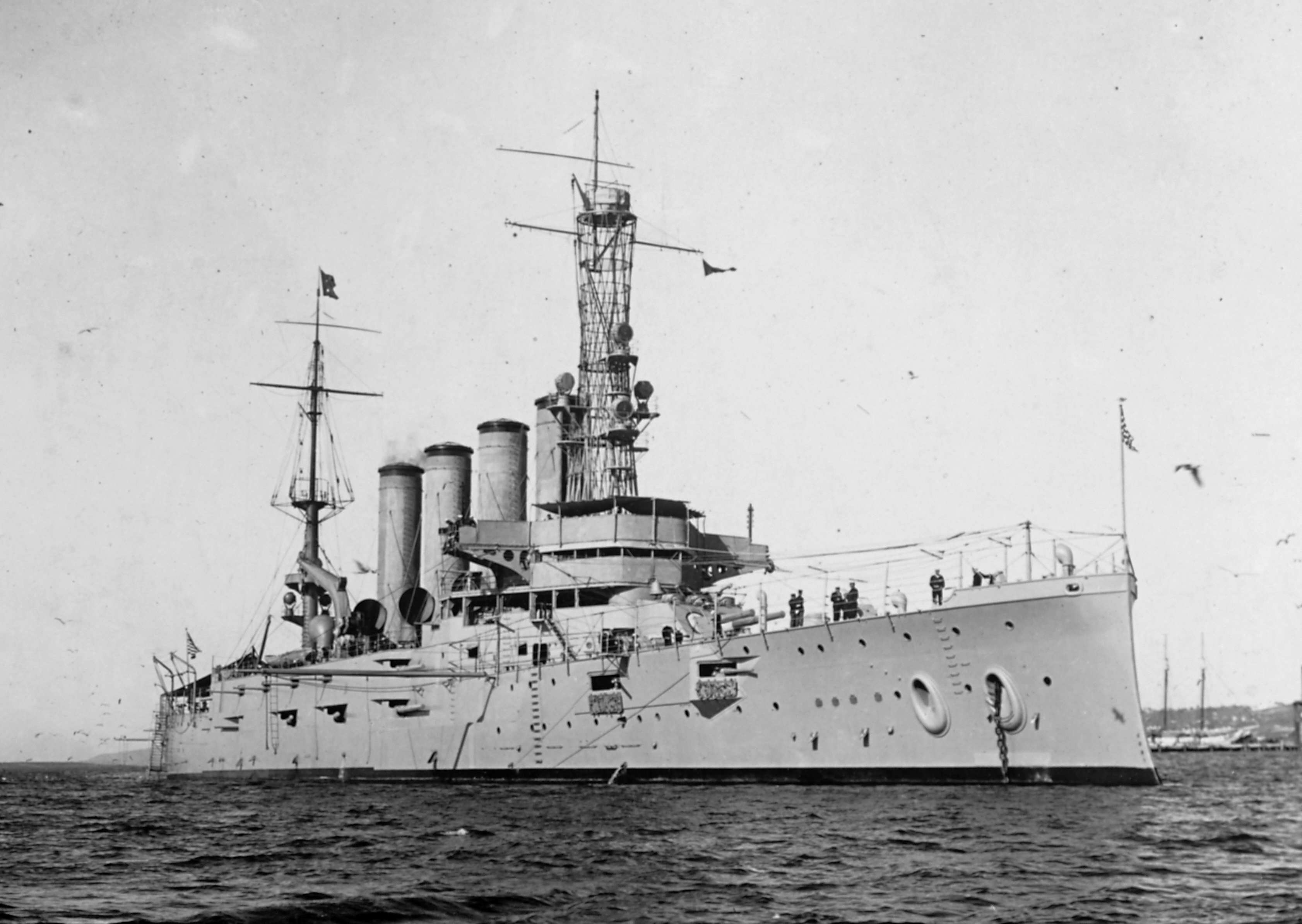 Removed caption read: Photo # NH 55013 USS San Diego on 28 January 1915 The Armored Cruiser USS California, Public domain photo from history.navy.mil